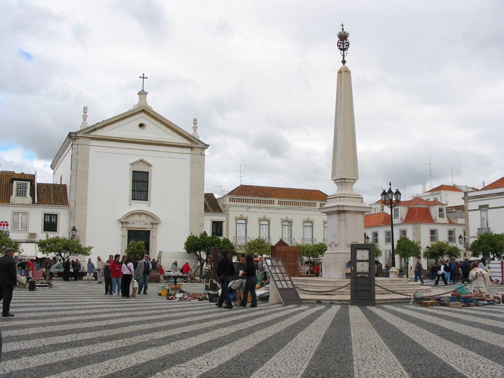 Center of Vila Real de Santo Antonio